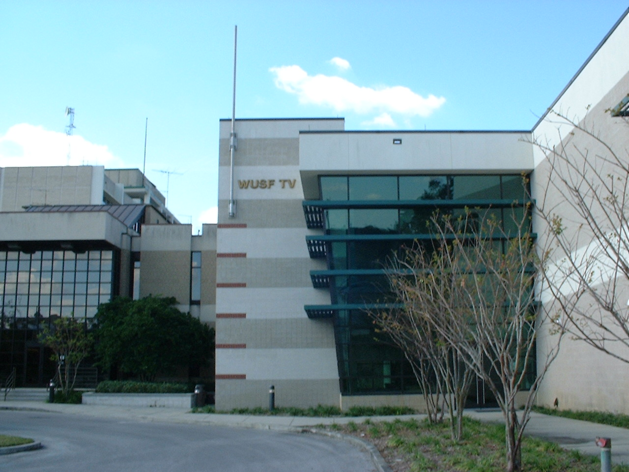 WUSF TV complex.